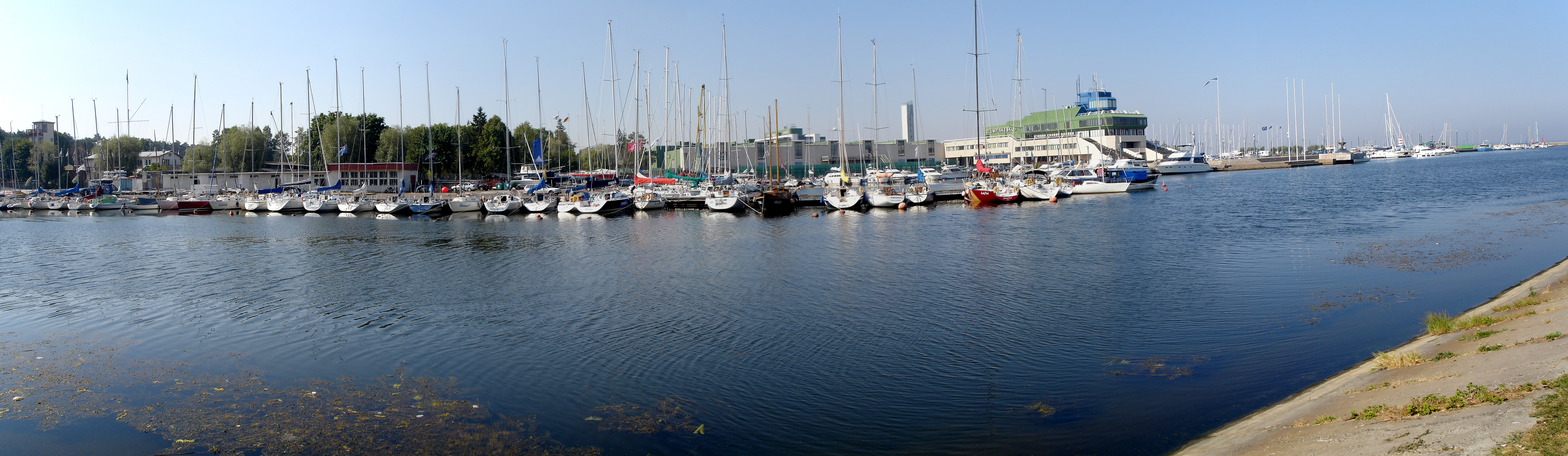 Kalev Yacht Club (right) and 1980 Olympic Yachting Complex (right), Tallinn, Estonia. This panoramic photo was created with Panorama Factory by combining 4 individual photo images.